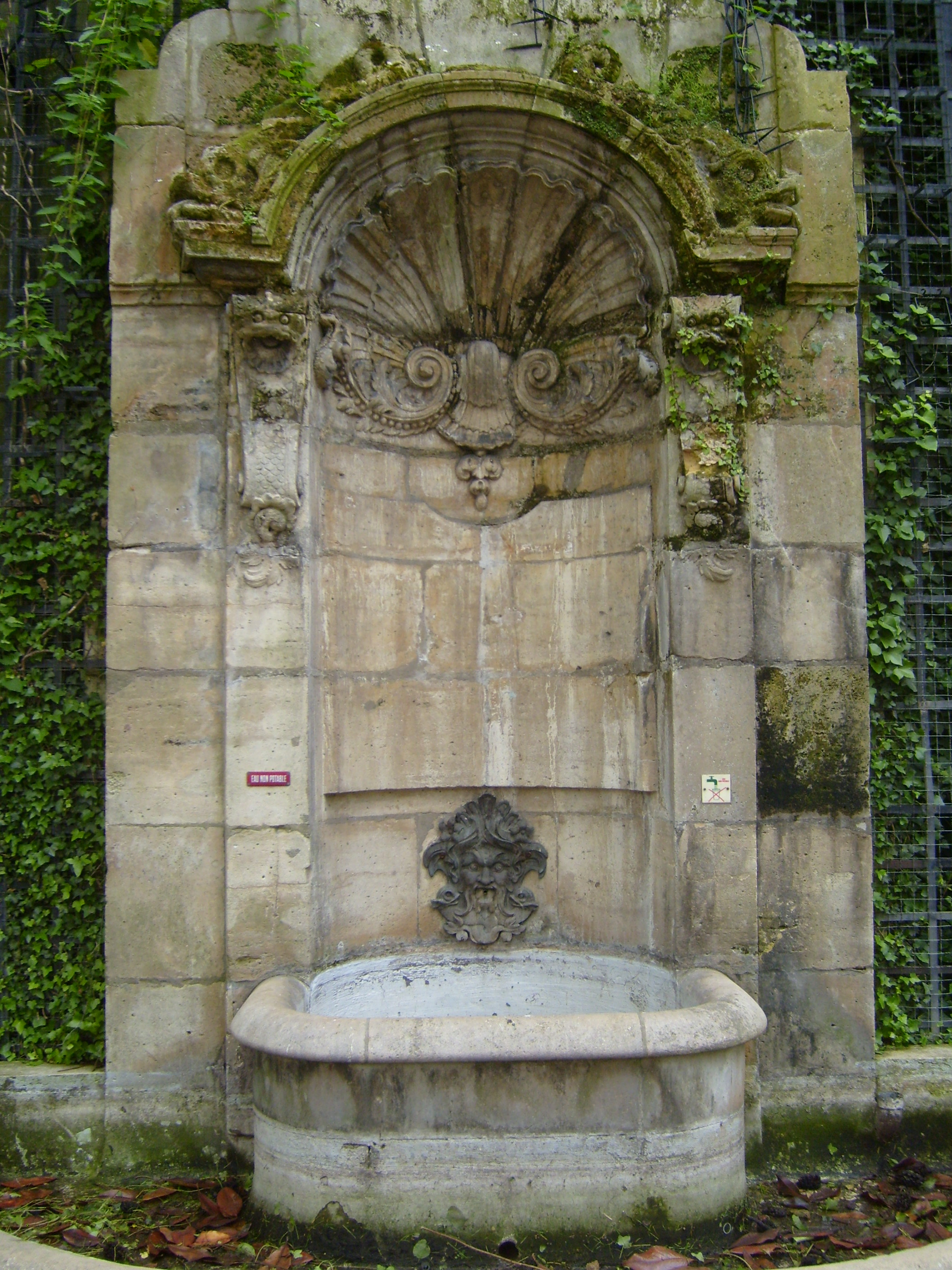 Fontaine de l'Abbaye Saint-Germain-des-Prés, or Fontaine Childebert. Originally at the corner of rue Childebert and rue Sainte-Marguerite, (1715–1717), by architects Victor-Thierry Dailly and Jean Beausire. Dismantled to make way for Boulevard Saint-Germain and moved to square Langevin, against the wall of the former Ecole Polytechnique.